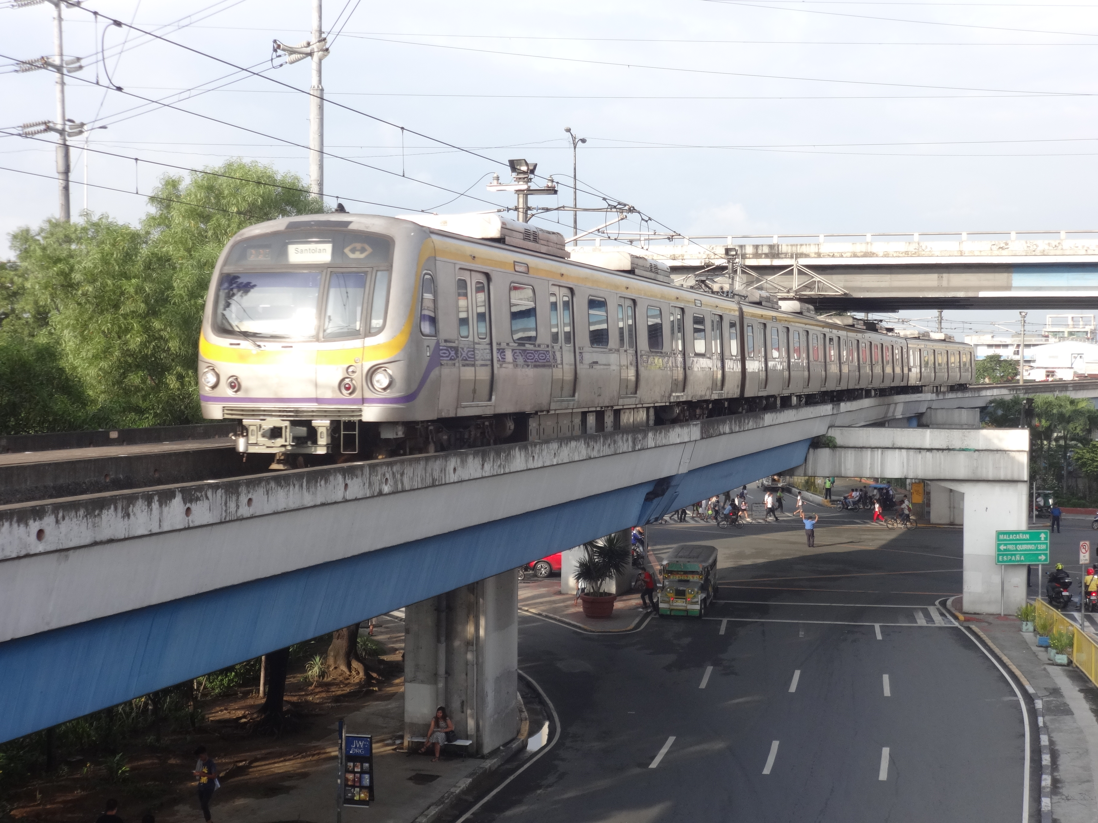 Line 2 train near Nagtahan in Santa Mesa, Manila